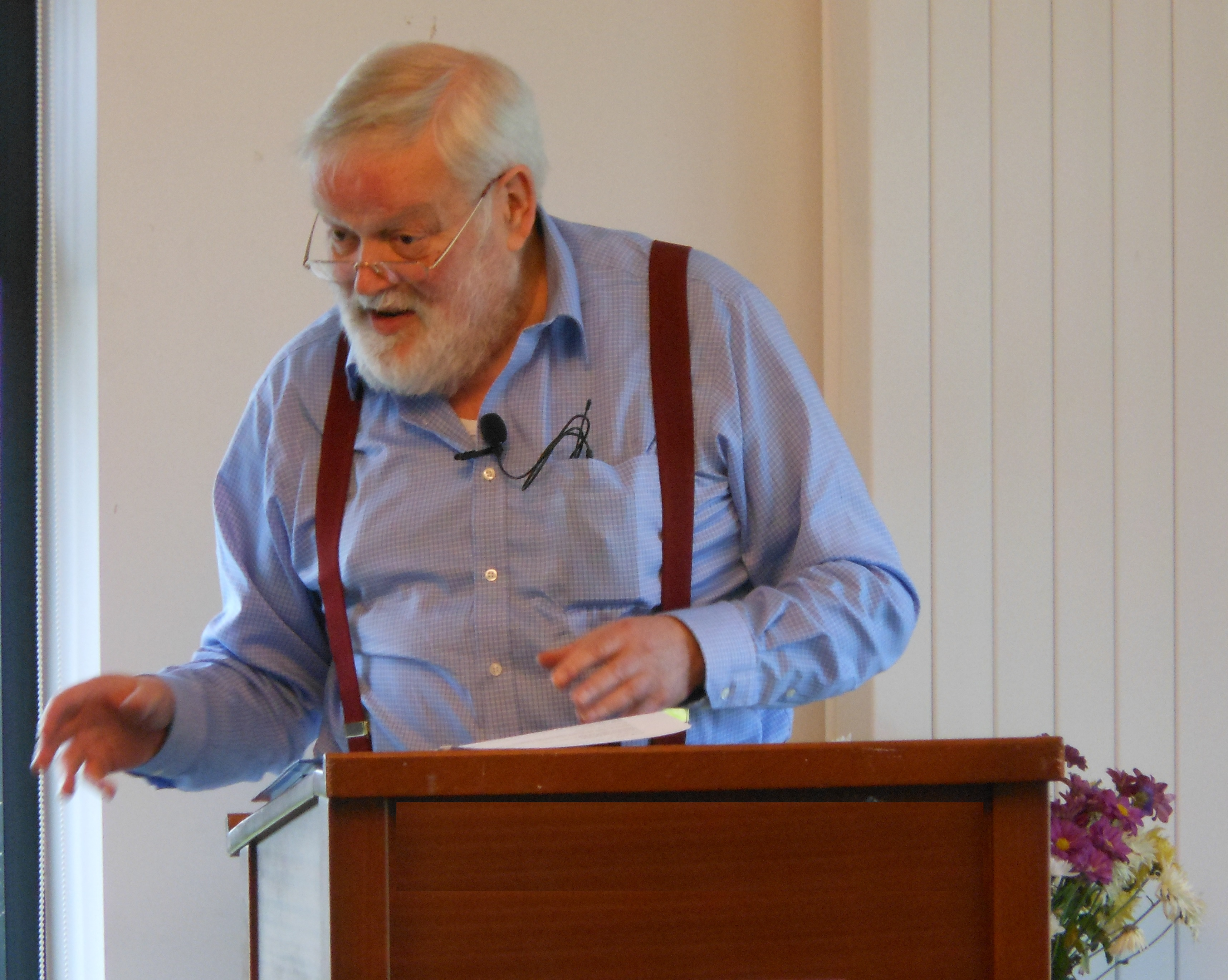 Michael Longley at the Corrymeela Peace Center in Ballycastle, Northern Ireland, in July 2012.